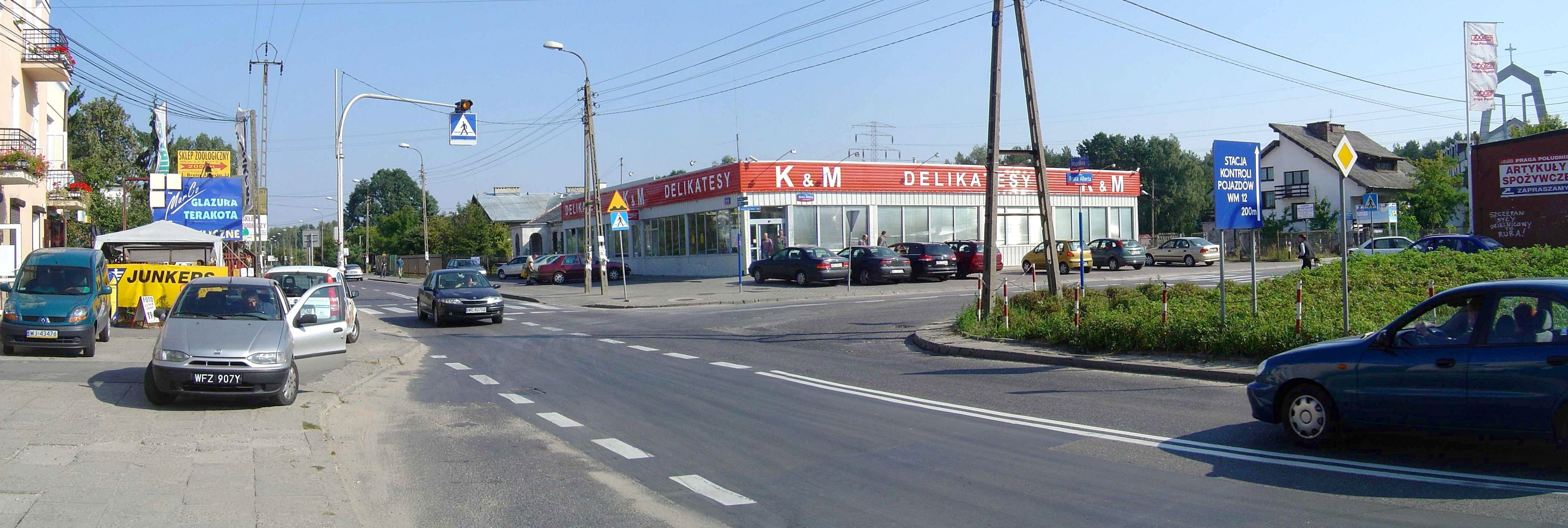 Wesoła: crossroads of Wspólna and Brata Alberta